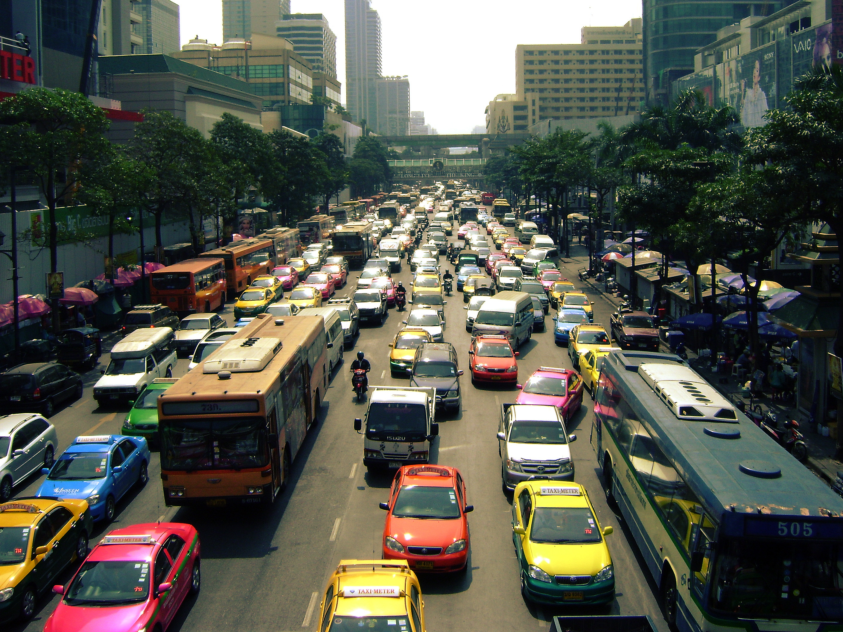 Traffic in Bangkok, Ratchadamri Road, traffic jam